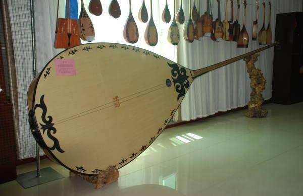 The largest dombra in Omikbek Kanai's collection